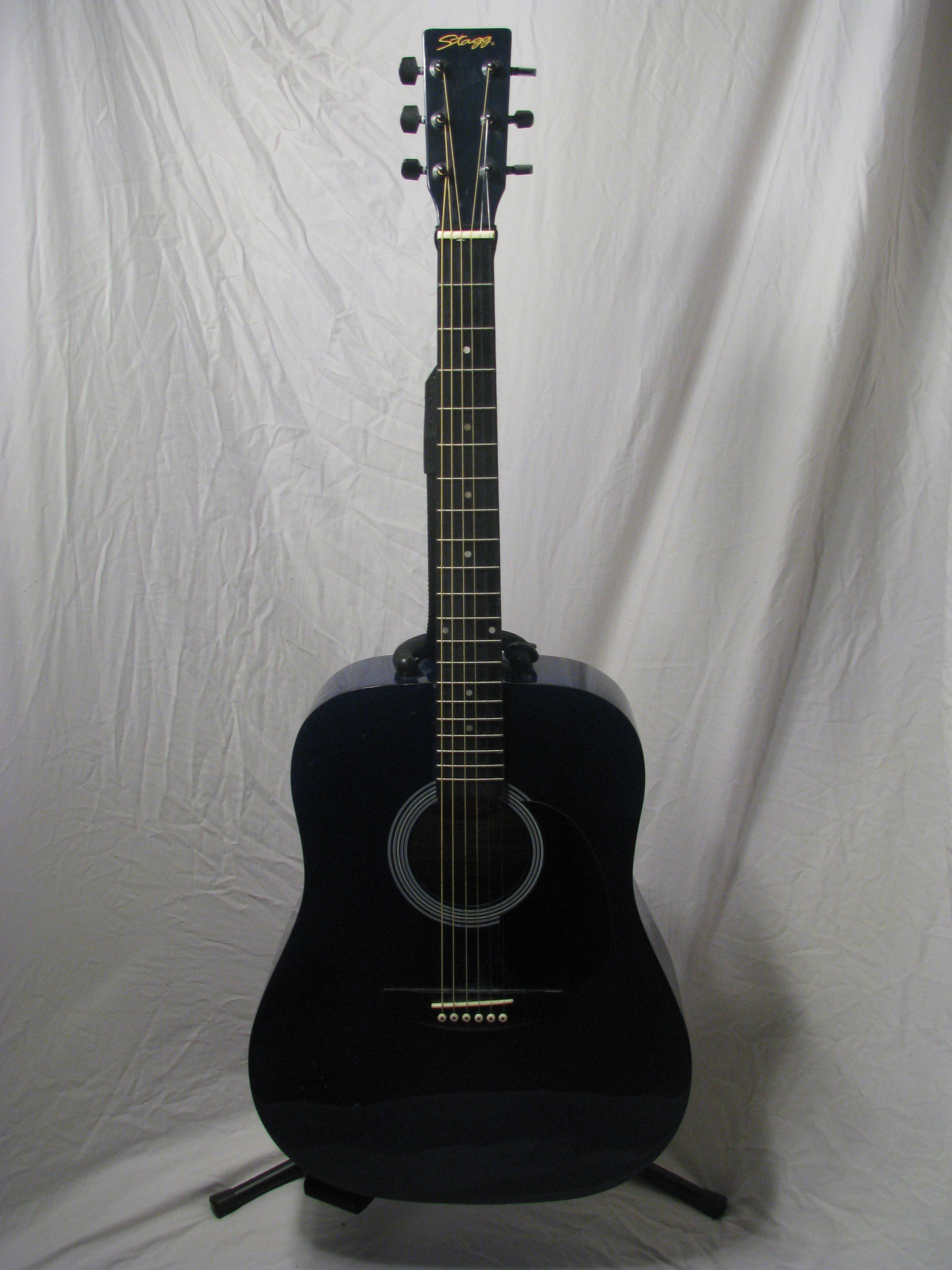 A blue acoustic Stagg guitar.